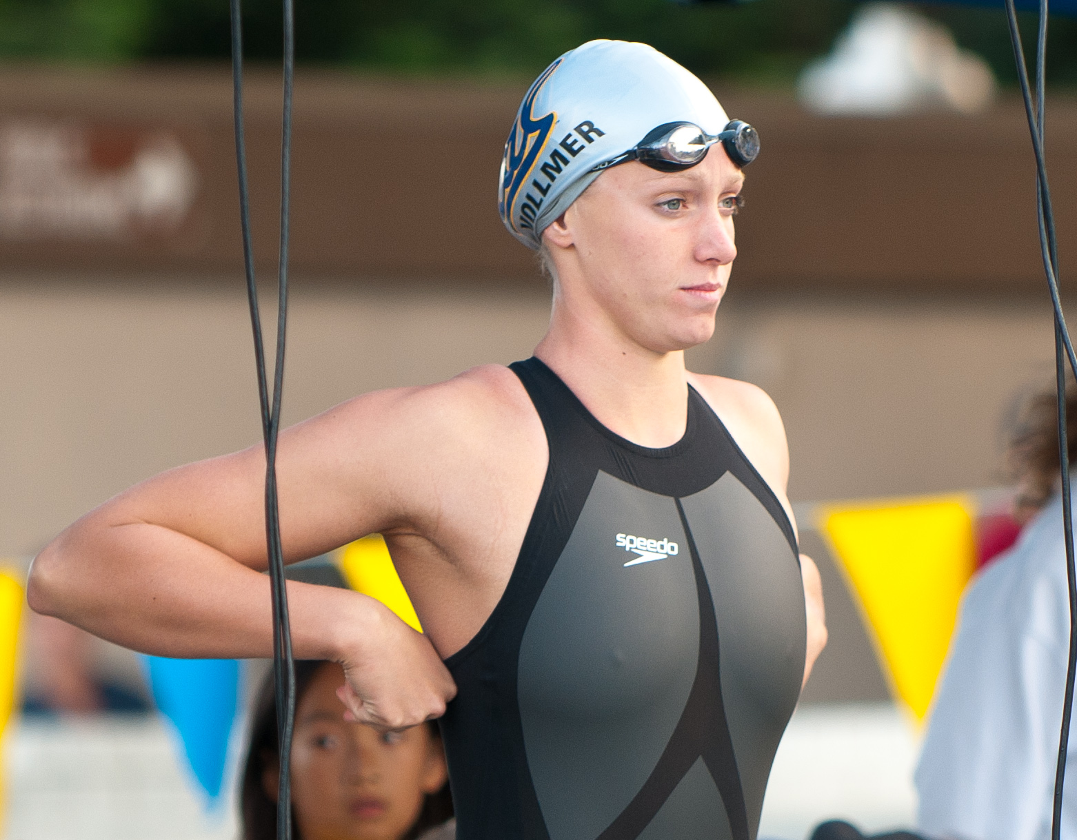 Dana Vollmer at the 2009 Santa Clara Grand Prix. Photo copyright by JD Lasica. for republication rights.